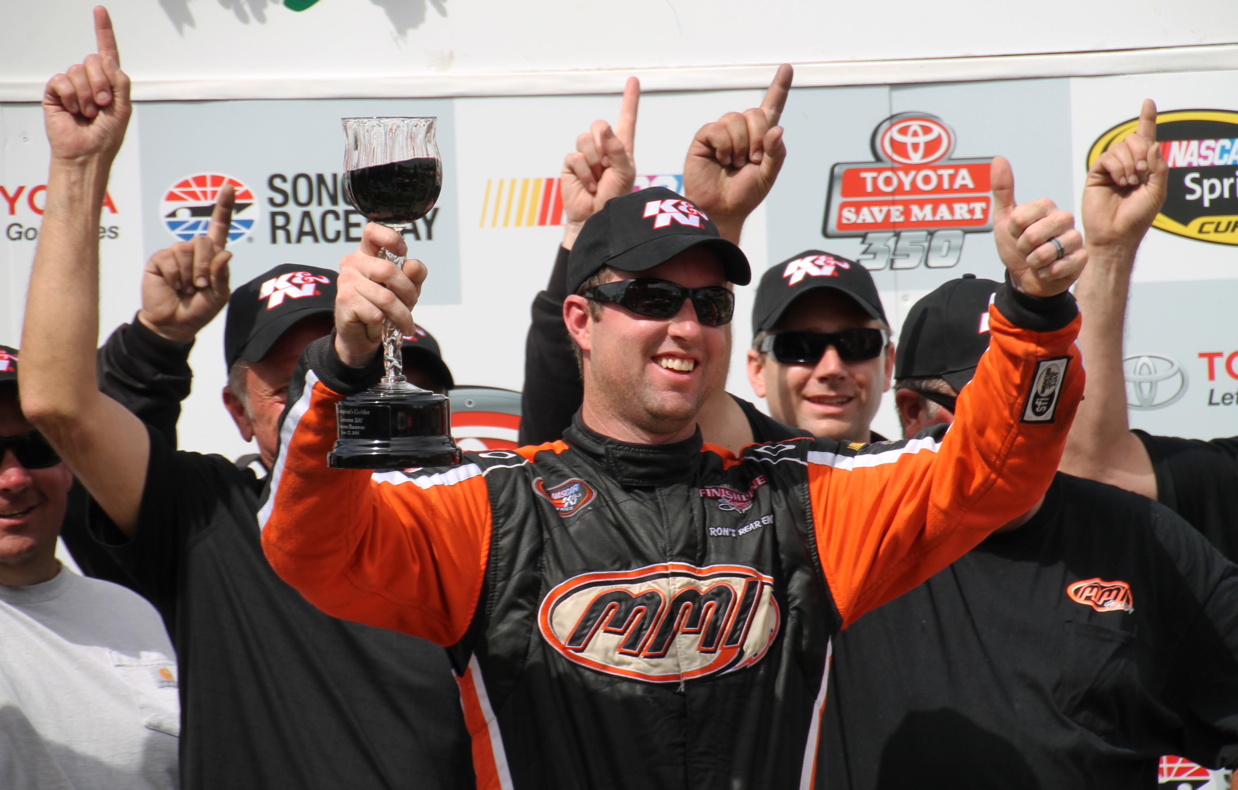 David Mayhew celebrates his win at the 2015 Carneros 200, Sonoma, California